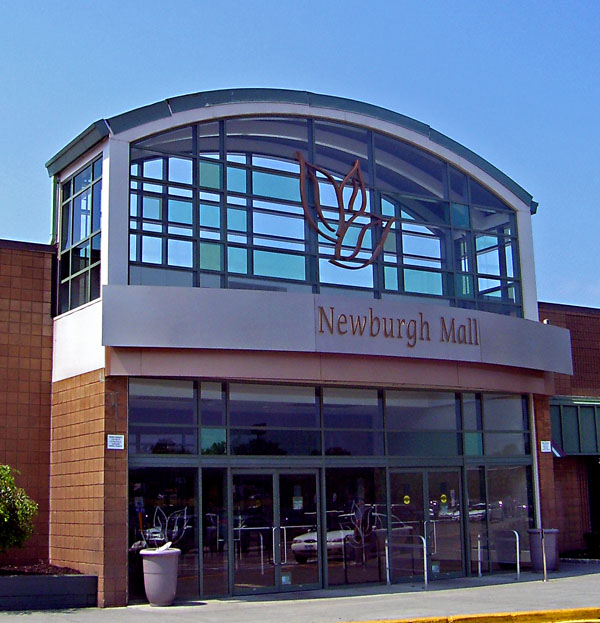 Newburgh Mall, Newburgh, NY. Photographed by Daniel Case 2006-08-05.